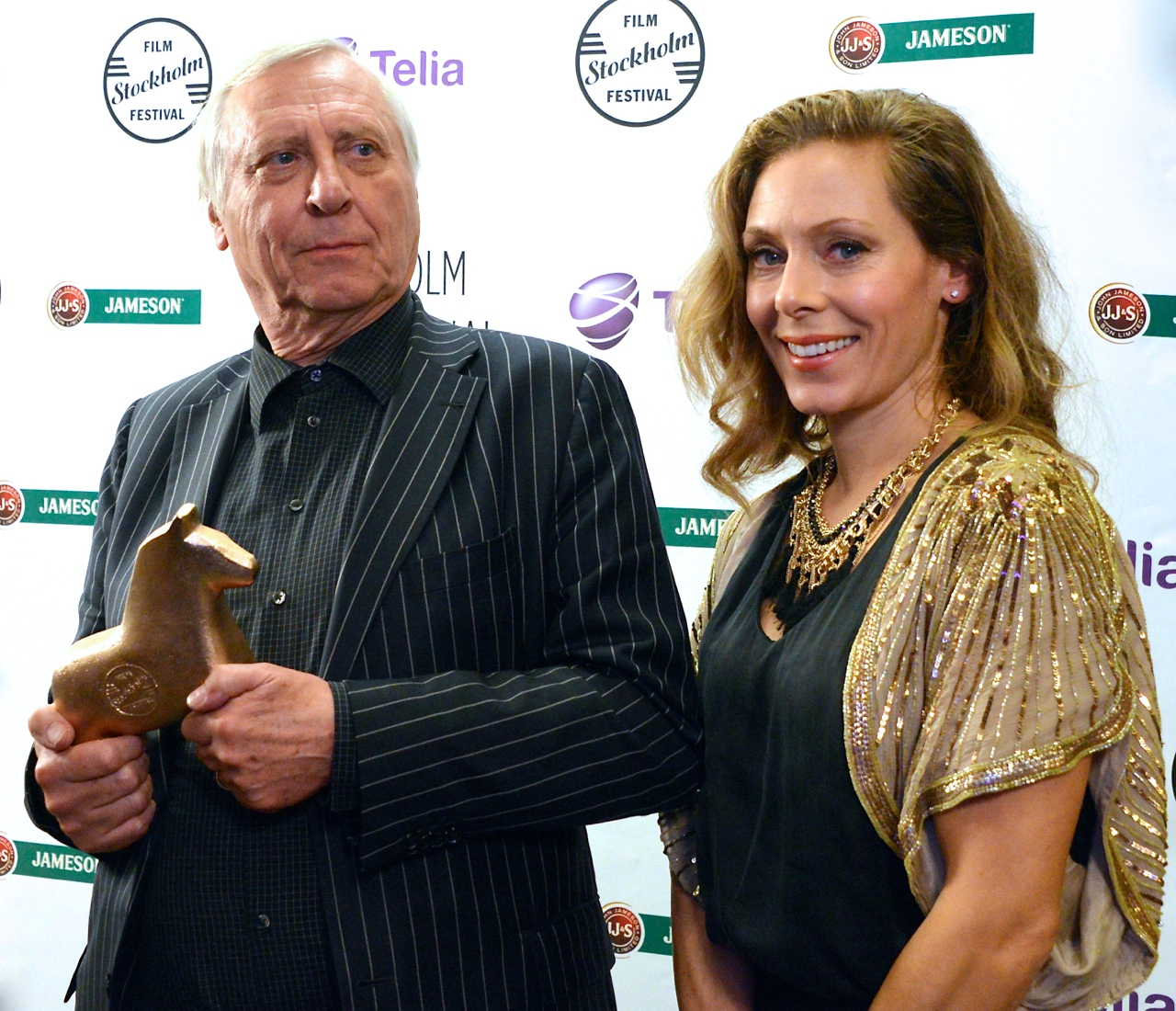 Peter Greenaway is awarded the Stockholm Visionary Award at the Stockholm International Film Festival on November 8, 2013. Eva Röse was adjudicators.